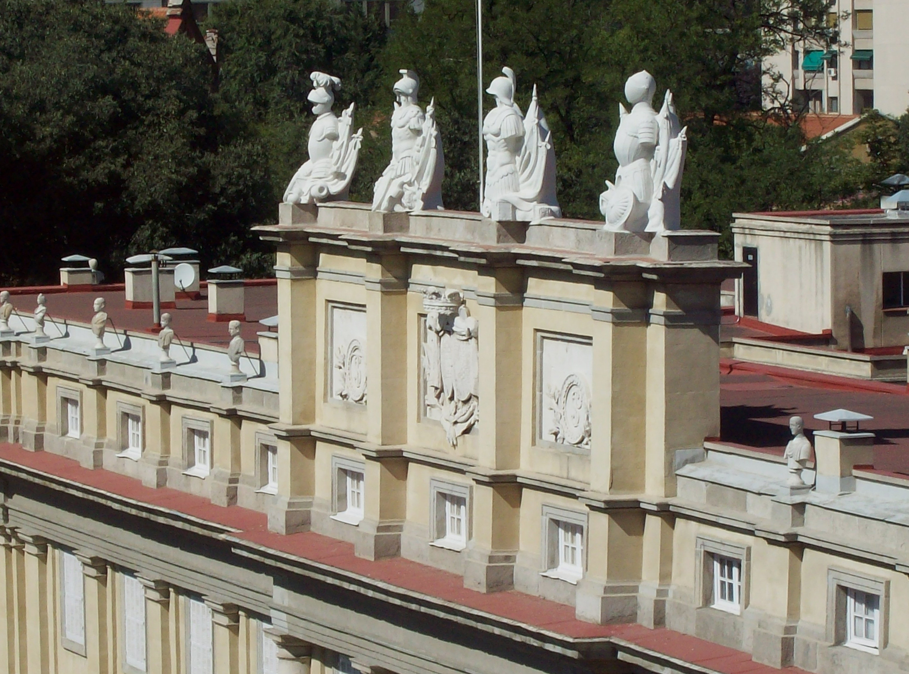 Detail of the north-east façade of Liria Palace in Madrid (Spain), seen from Cuartel del Conde-Duque.